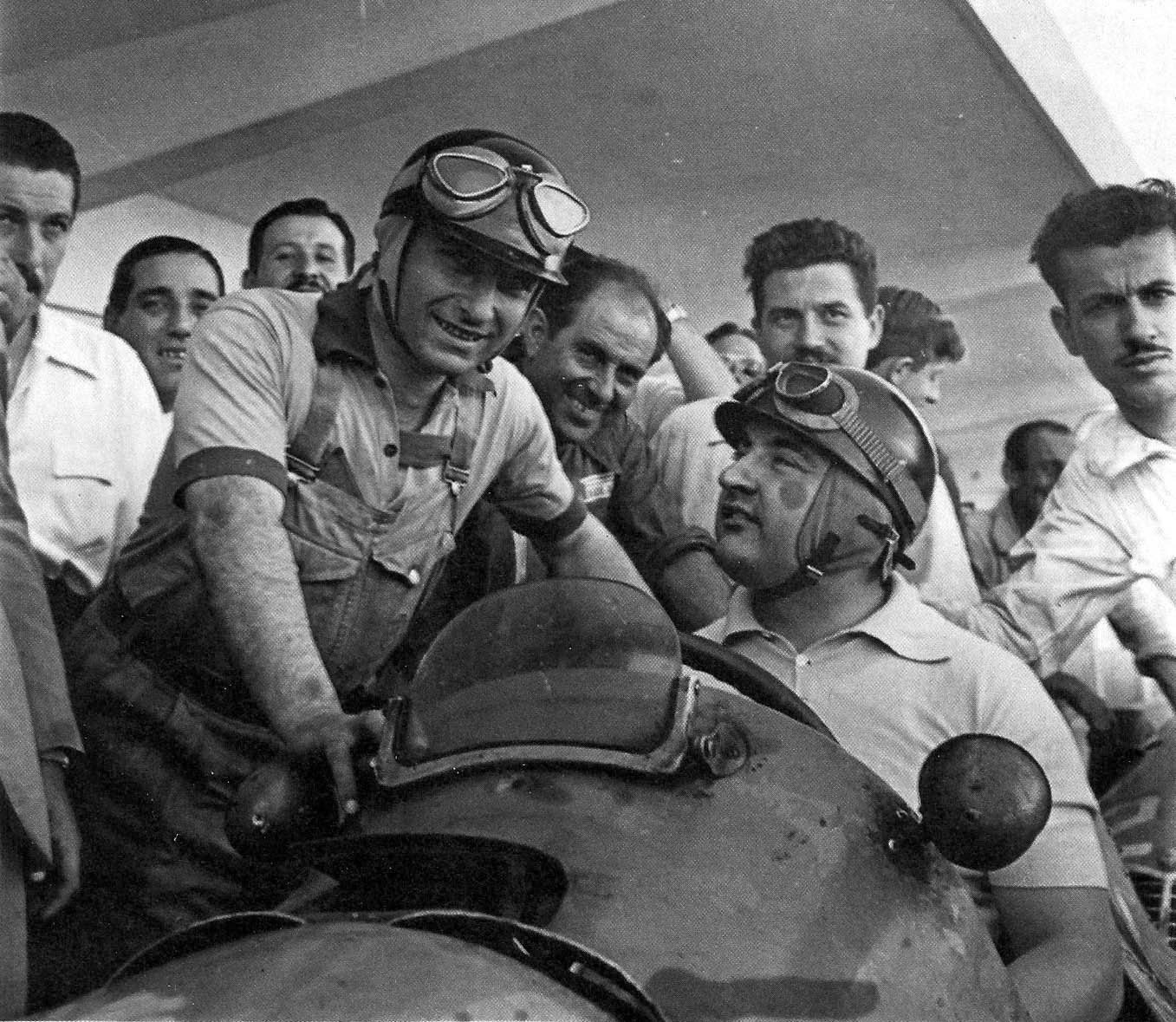 Argentine racing drivers Juan Manuel Fangio (left) and José Froilán González during a test before the Argentina Grand Prix of 1953, held in the "Autódromo de Buenos Aires". That would be the first F1 competition outside Europe. In the race, Froilán finished 3rd. while Fangio had to quit after his car was damaged.